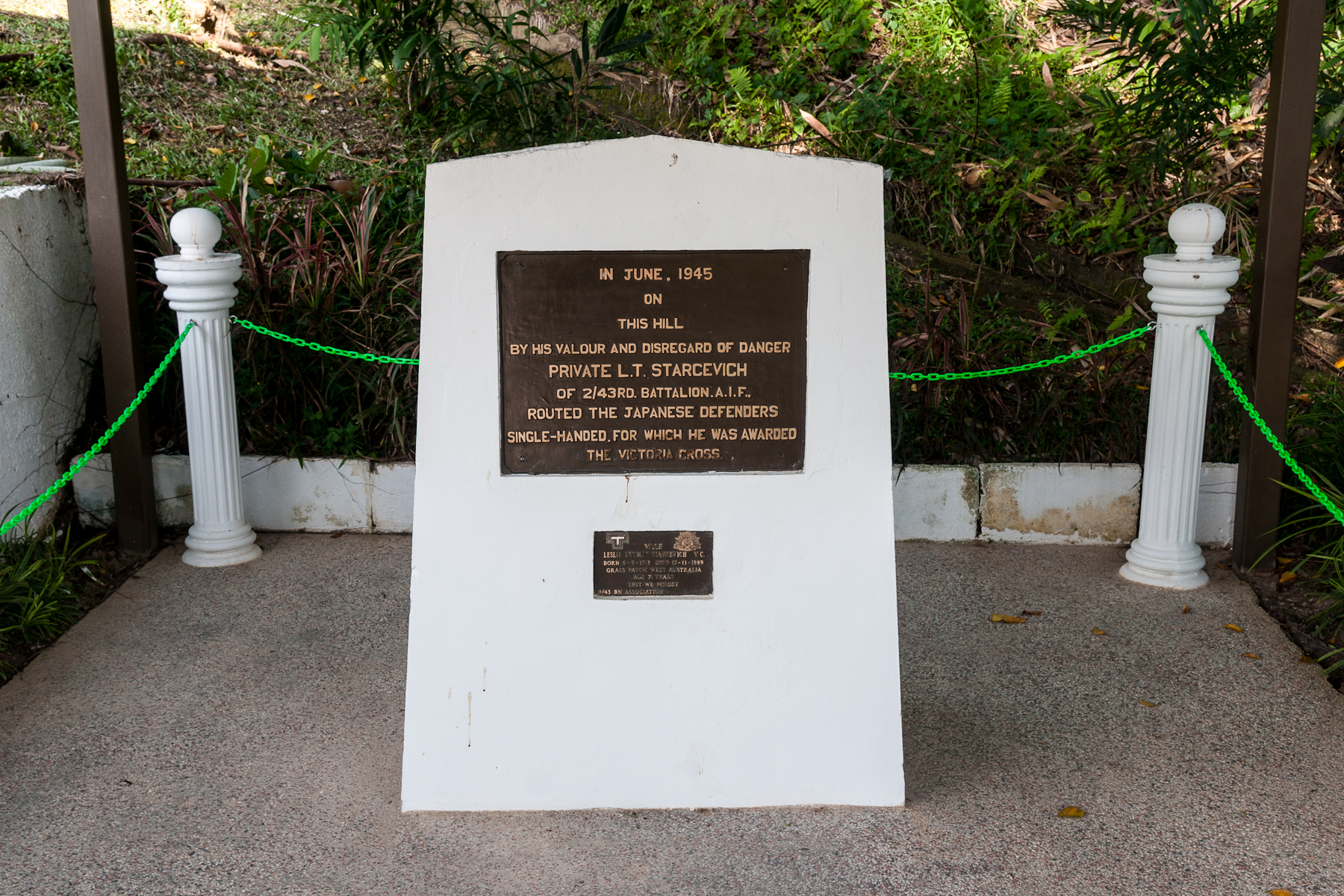 Beaufort, Sabah: Starcevich Memorial Monument